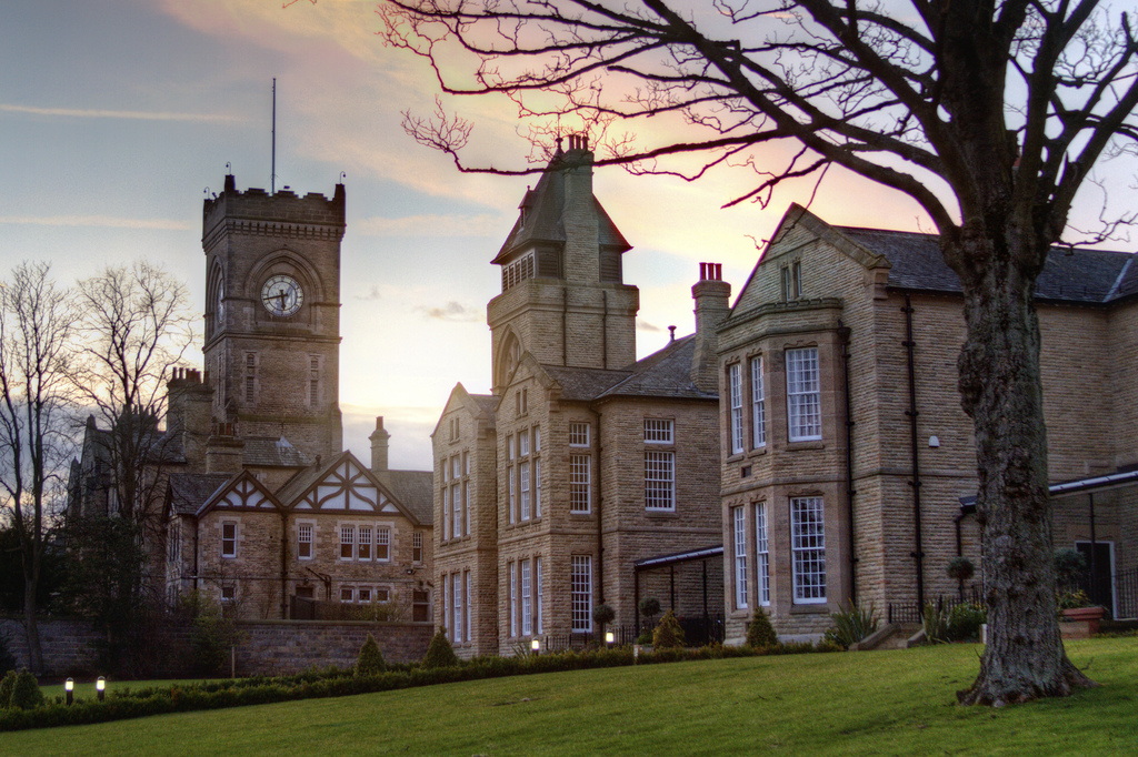 The famous clock tower of High Royds is seen here at sunset on an evening in February 2012. This shot was taken from the lawn in front of what used to be the Ramsgill and Amerdale wards, lying to the southern front half of the hospital's female treatment section. Redevelopment of this section is complete and the buildings in the foreground have now been converted to residential use. You can find the original high-resolution photograph online in this set of images.